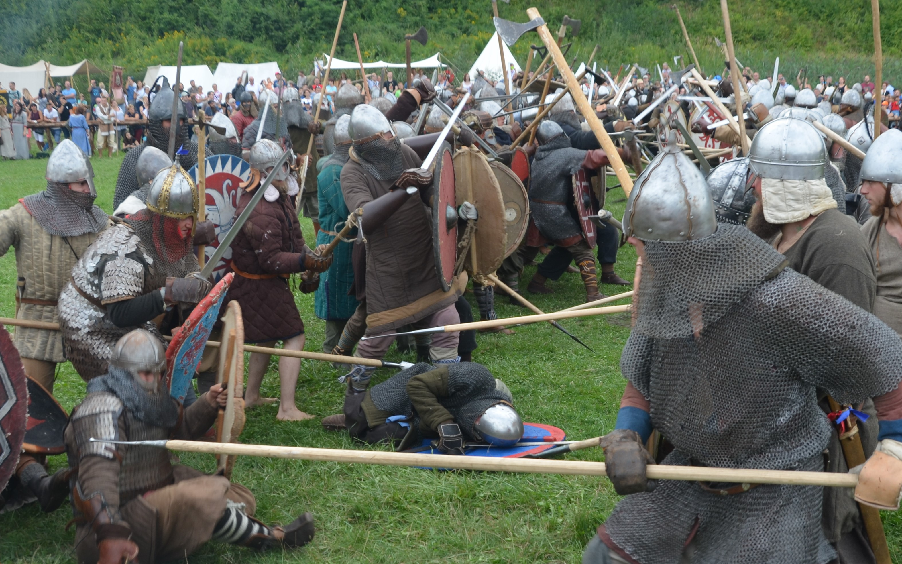 Gefecht bei Trcziencza